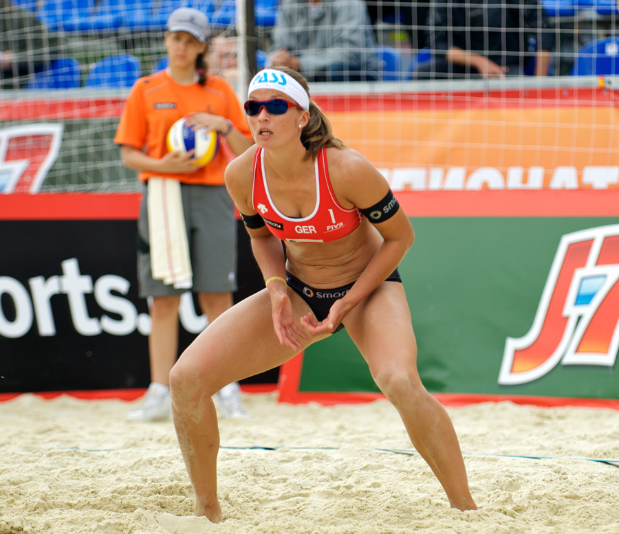 Grand Slam Moscow 2012